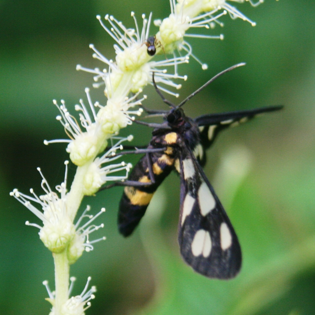 Amata fortunei and flower of Chestnut